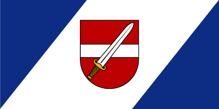 Flag of the Latvian city of Dobele.